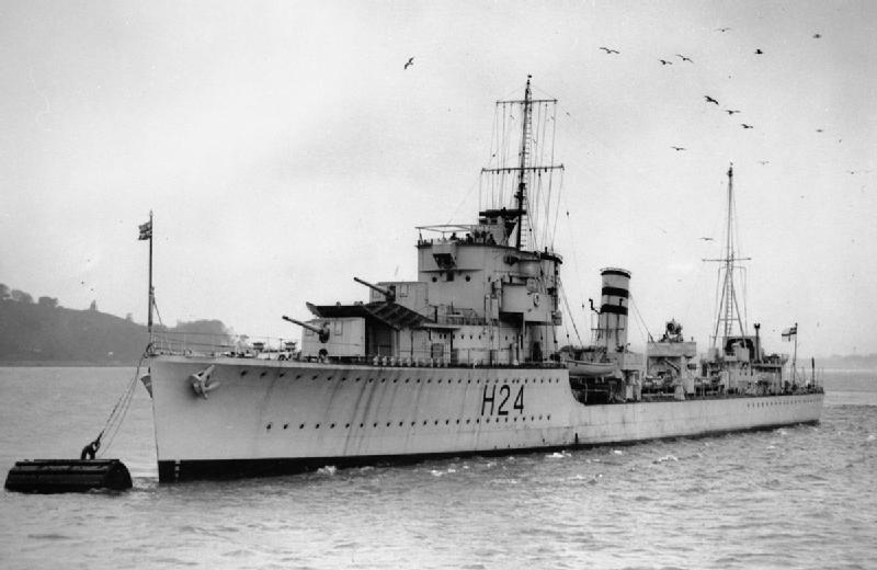 British destroyer HMS HASTY moored.